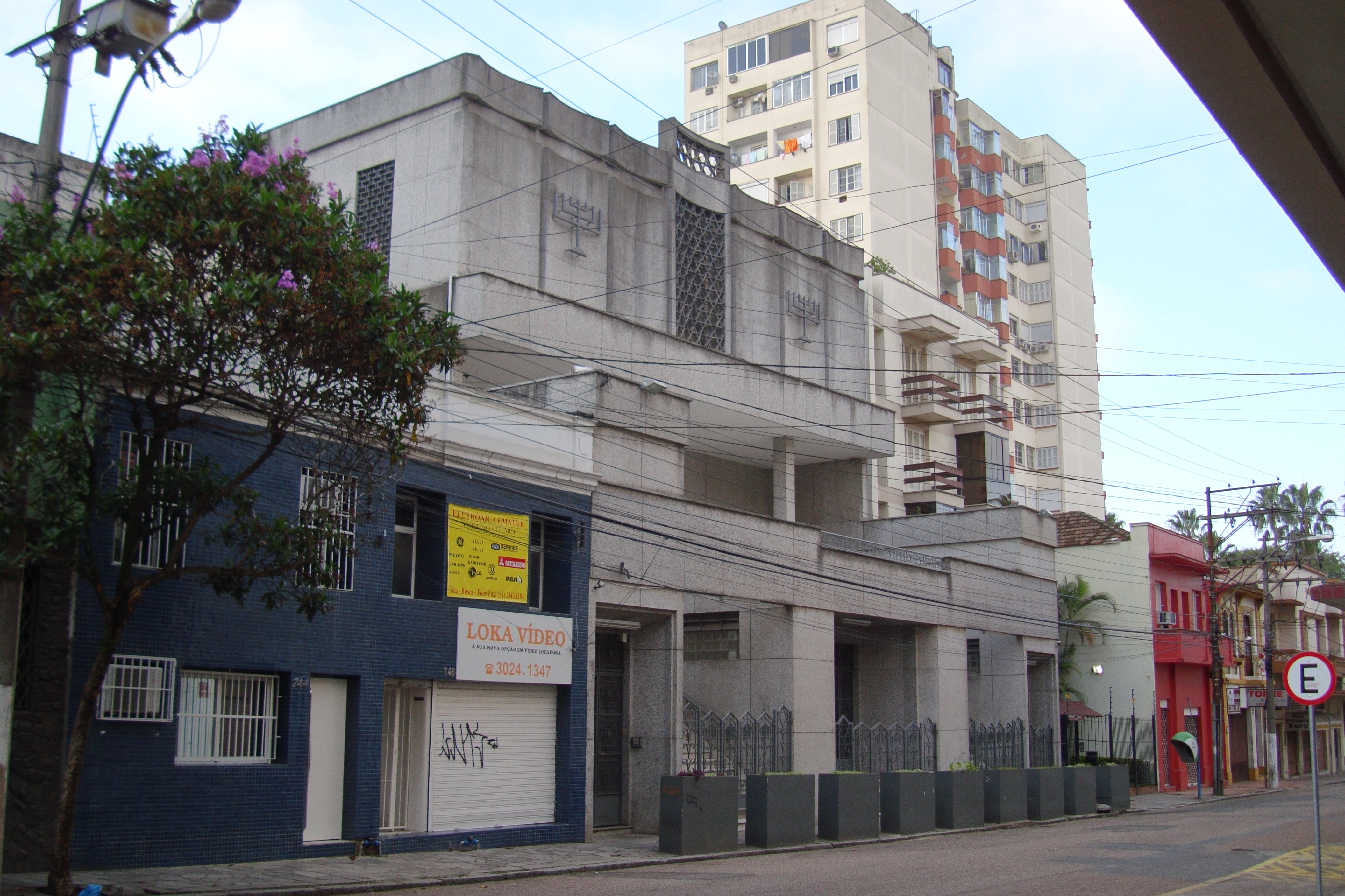 Synagogue of the União Israelita Portoalegrense, Porto Alegre, Rio Grande do Sul, Brazil